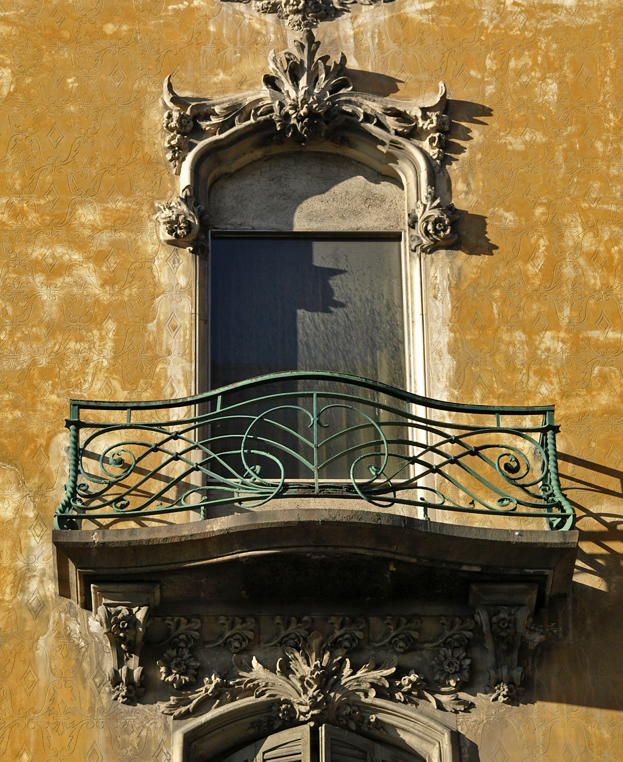 La Rotonda - Catalan Modernisme (Adolf Ruiz i Casamitjana, 1906)